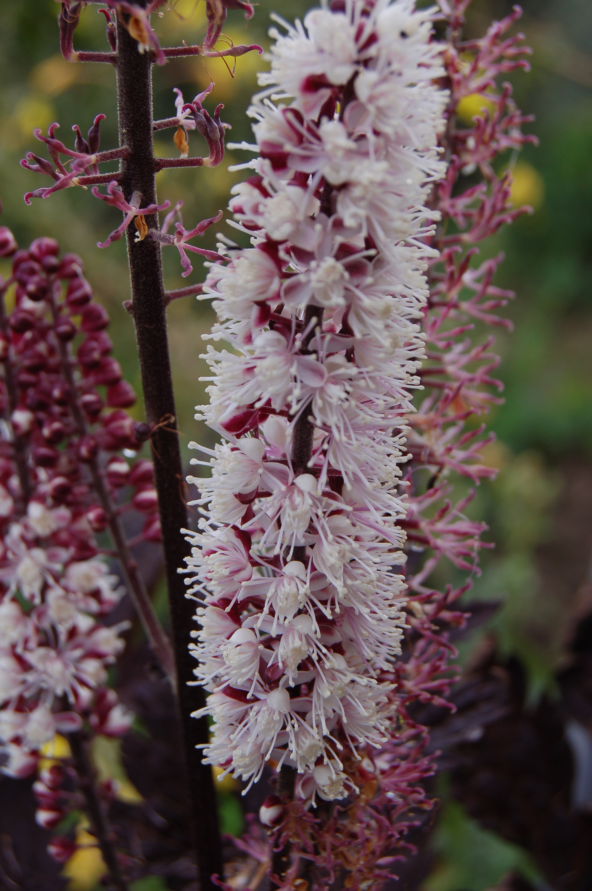 The rare Brunette bugbane (Actaea Brunette or Cimicifuga Brunette).